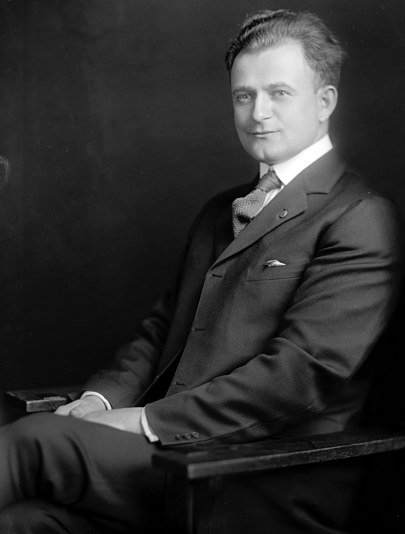 Lon A. Scott, US Representative from Tennessee